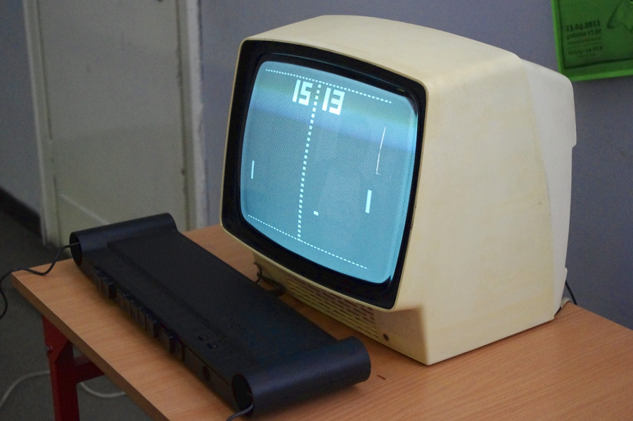 Video game console Ameprod TVG-10 at "Dawne Komputery i Gry" (Old Computers and Games) in Kraków.